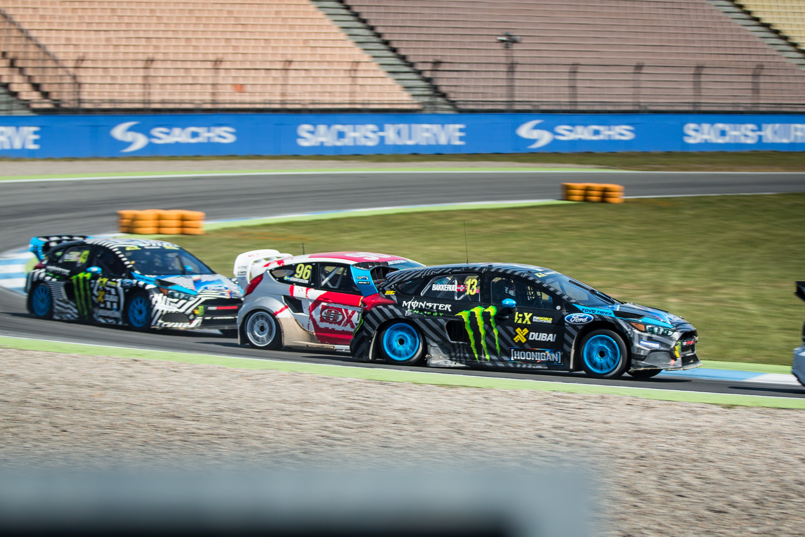 Andreas Bakkerud (#13), Kevin Eriksson (#96) and Ken Block (#43) at Round 2 of the 2016 FIA World Rallycross Championship at Hockenheimring, Germany.